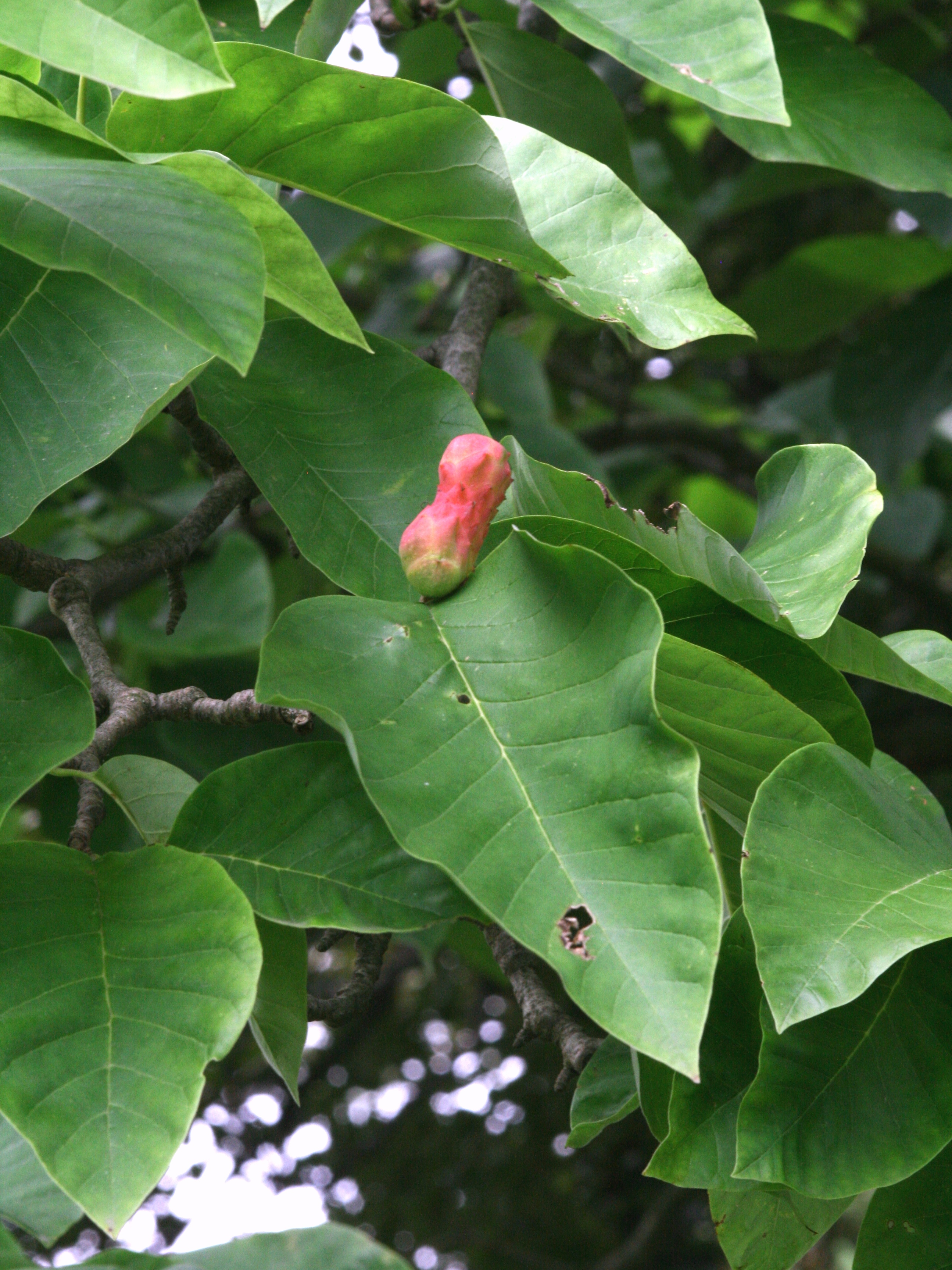 Magnolia acuminata, Dendrological Garden Pruhonice, Czech Republic